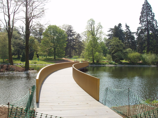 Sackler Crossing, Kew Gardens lake. This new bridge was complete and due to open a few weeks after this photograph was taken. It provides a new route across the middle of the gardens. Designed by John Pawson, the deck is granite and the balustrade is bronze. See Kew Gardens website